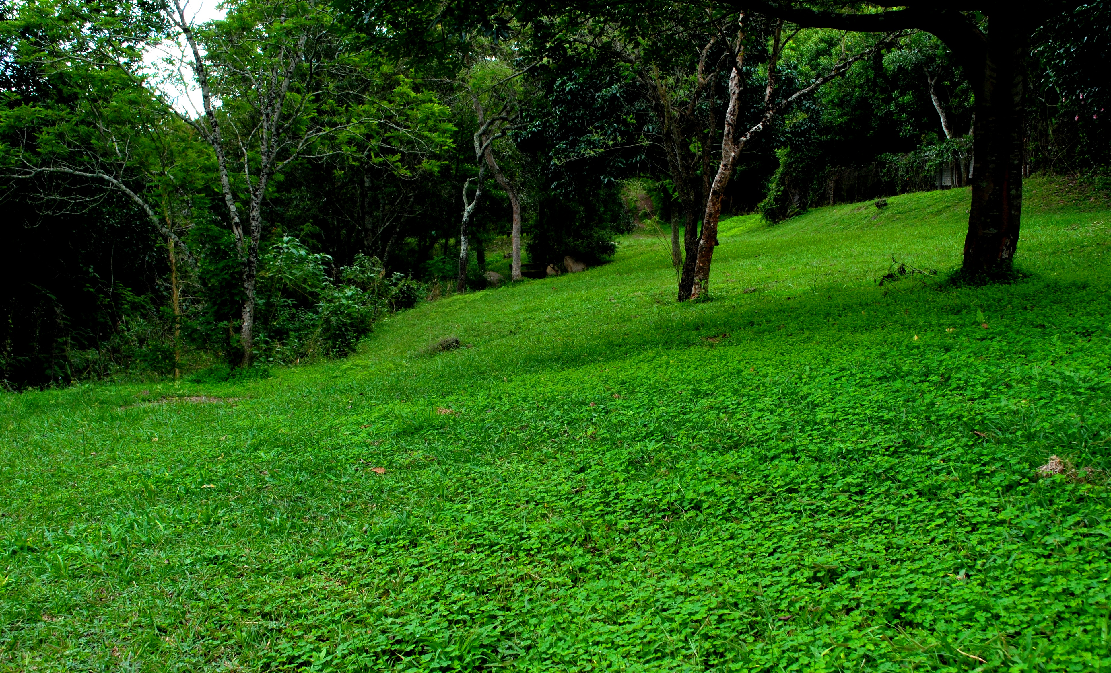 A park in Nelspruit, South Africa